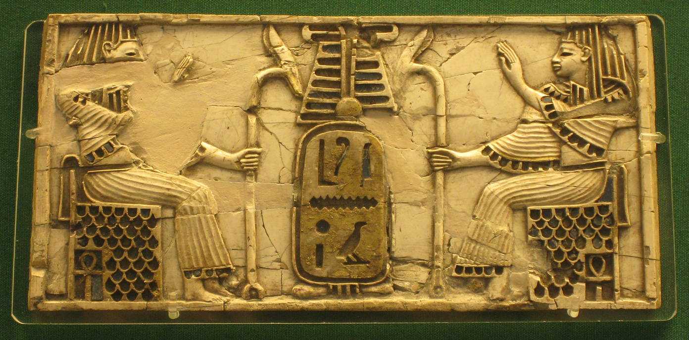 Ivory plaque from Nimrud depicting two Egyptians. From the British Museum.